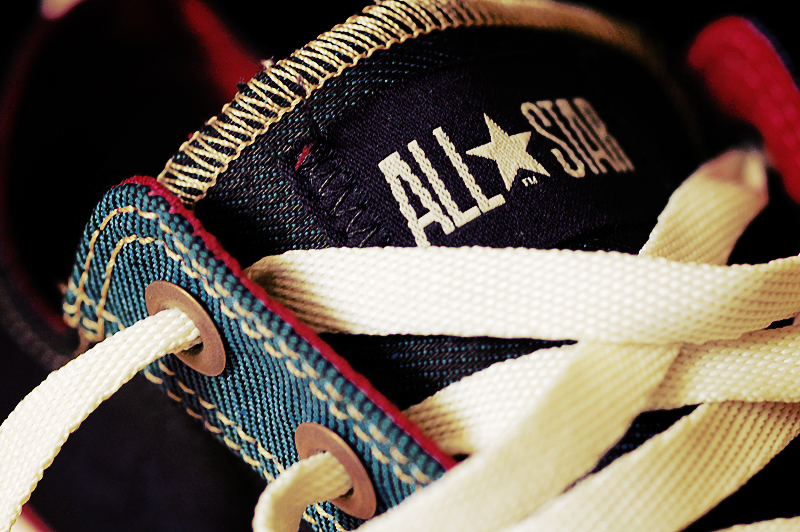 Cross-laced white shoelaces on a sneaker.